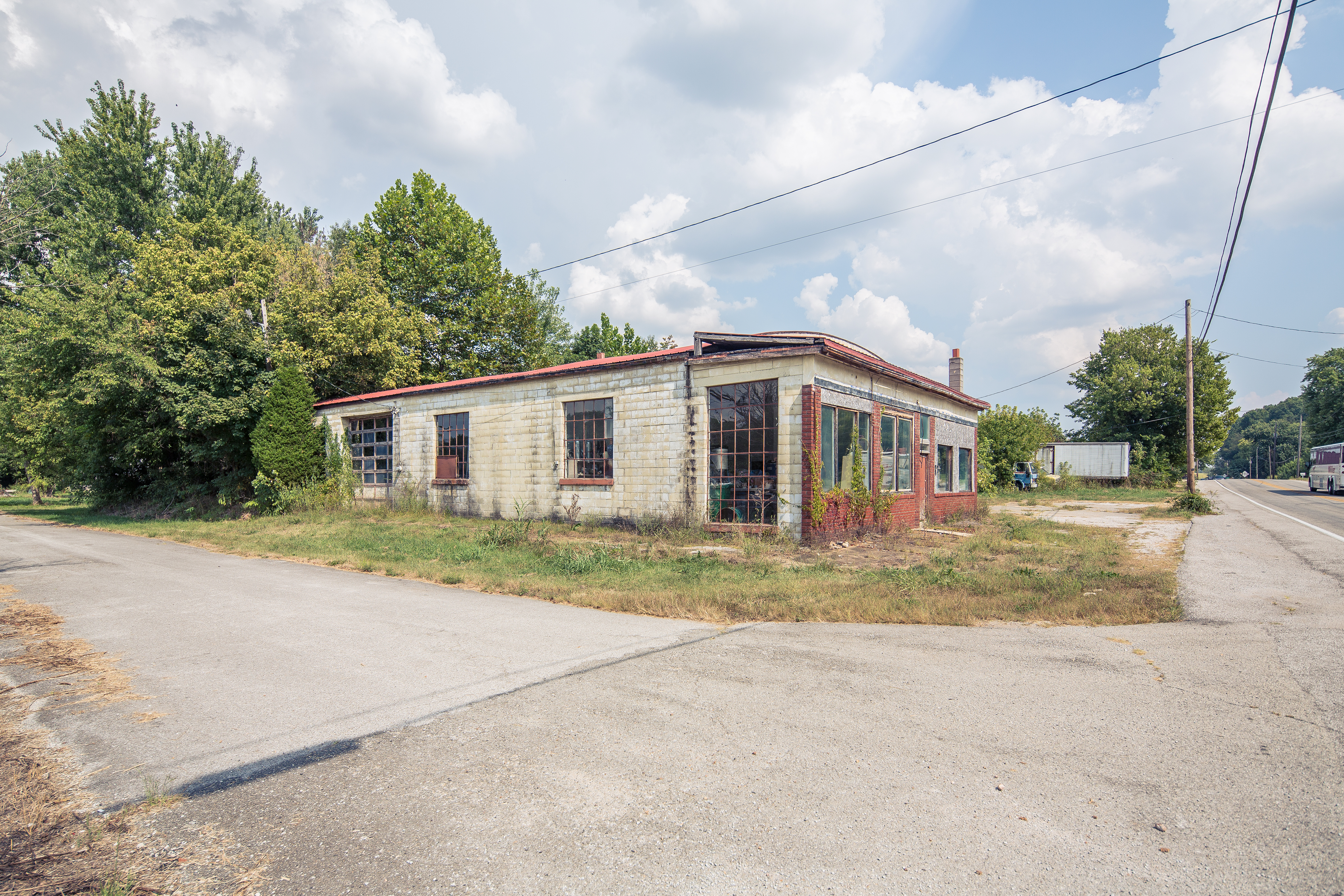 Photo from Small Town Indiana photo survey.